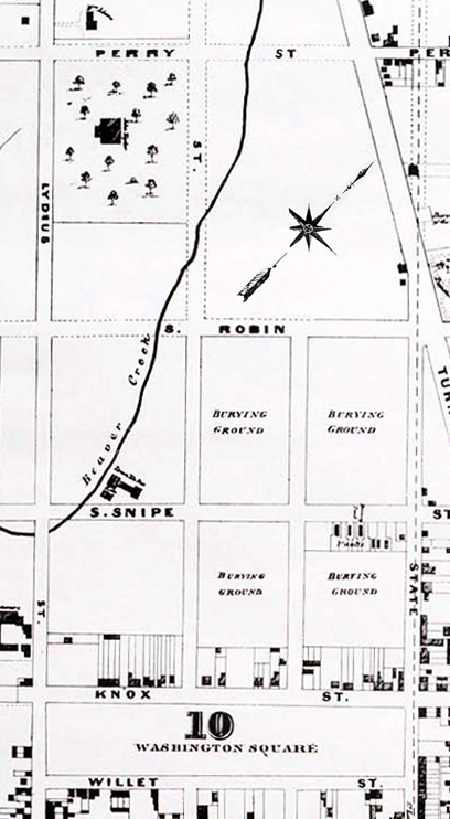 Crop of a map of Albany, New York, United States printed in 1857, highlighting the future location of Washington Park.